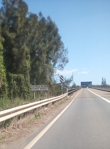 Dennis Bridge across the Hastings River, near Port Macquarie, in New South Wales, Australia. Between 1961 and 2017 the bridge carried the Pacific Highway.